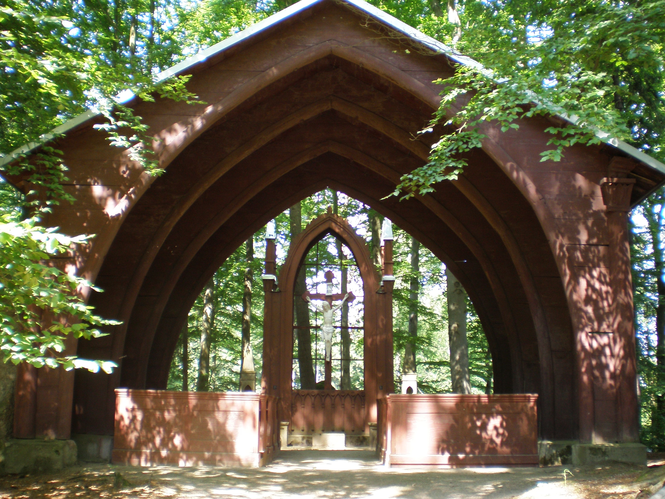 Castle Kynžvart, Czech Republic, Holly Cross Chapel (2008)